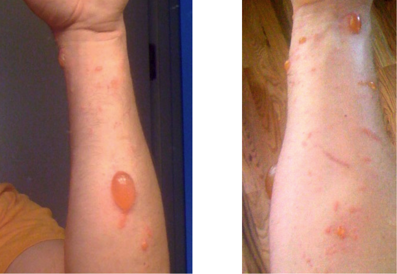 Urushiol-induced contact dermatitis on arms after 72 hours of contact with poison ivy